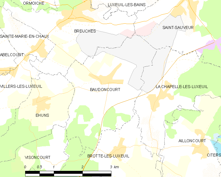 Map of French municipality